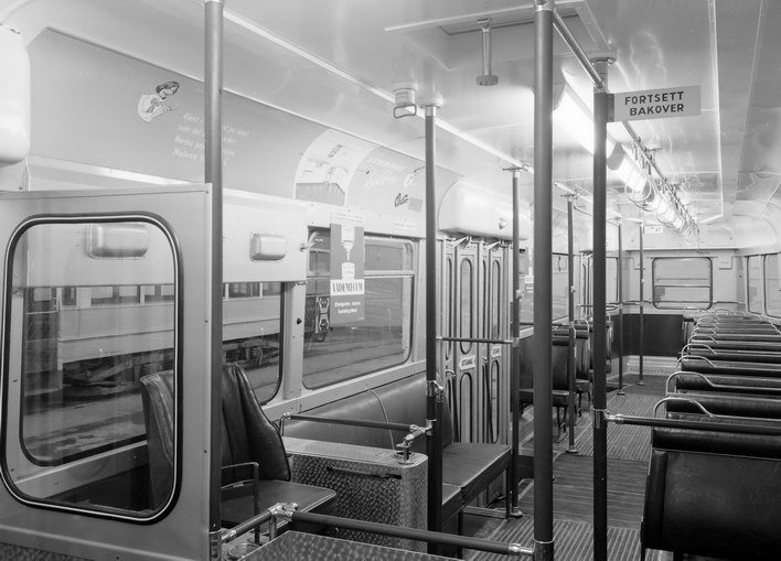 Interior of a Oslo Sporveier SM53 trailerNorsk bokmål: Oslo Sporveier. Trikk Høkatilhenger 559 type TBO, interiør som nylevert fra Hønefoss Karosserifabrikk. Virksom bakdør, konduktørsete. Fotografert i Grefsen vognhall.